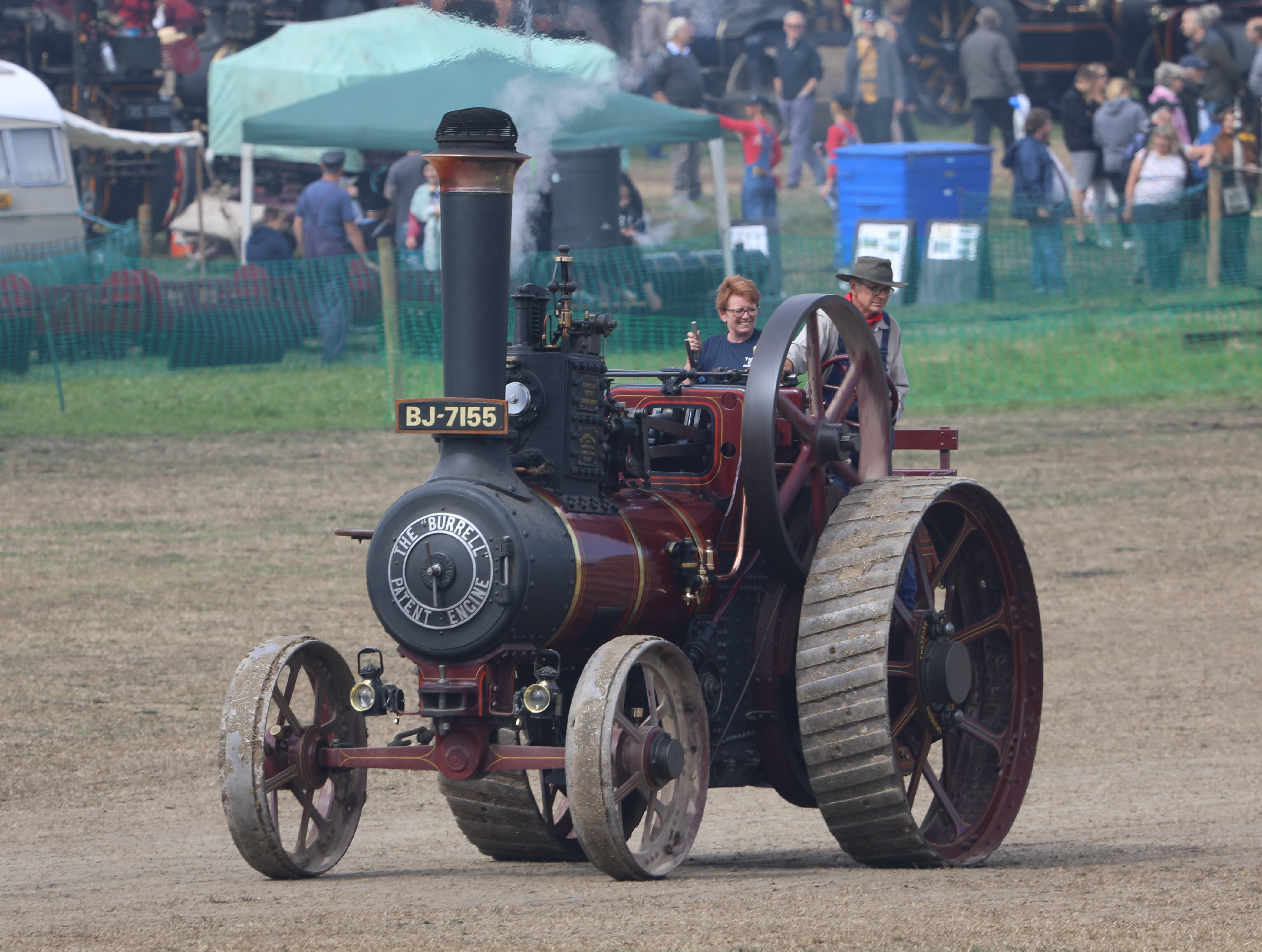 Photo of Photo of 1909 Burrell 6NHP general purpose engine number 3126. 2018 GDSF program number 450